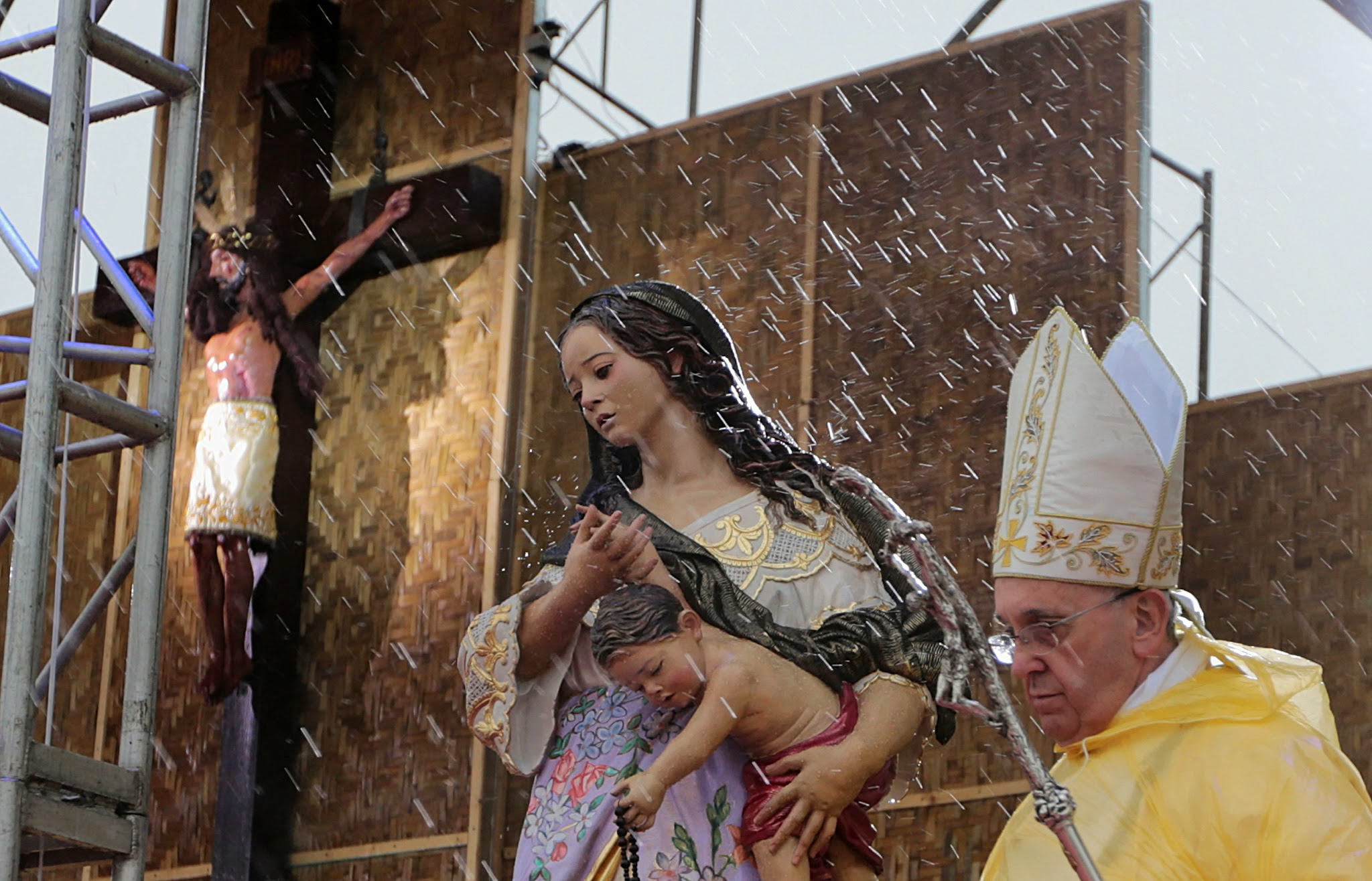 Pope Francis, wearing a yellow raincoat, celebrates mass amidst heavy rains and strong winds near the Tacloban Airport Saturday, January 17, 2015. After the mass, the Pope will visit Palo, Leyte to meet with families of typhoon Yolanda victims. The Pope visit to Leyte was shortened due to on going typhoon in the area.